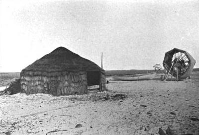 Black and white photograph from "The Fishes of North Carolina," by Hugh McCormick Smith, North Carolina Geological and Economic Survey, plate No. 20, published by E. M. Uzzell & Co., Raleigh, North Carolina, 1907. Plate shows the camp of a group of mullet fishermen at the Mullet Pond fishery on Shackleford Banks, North Carolina, an offshore barrier island.